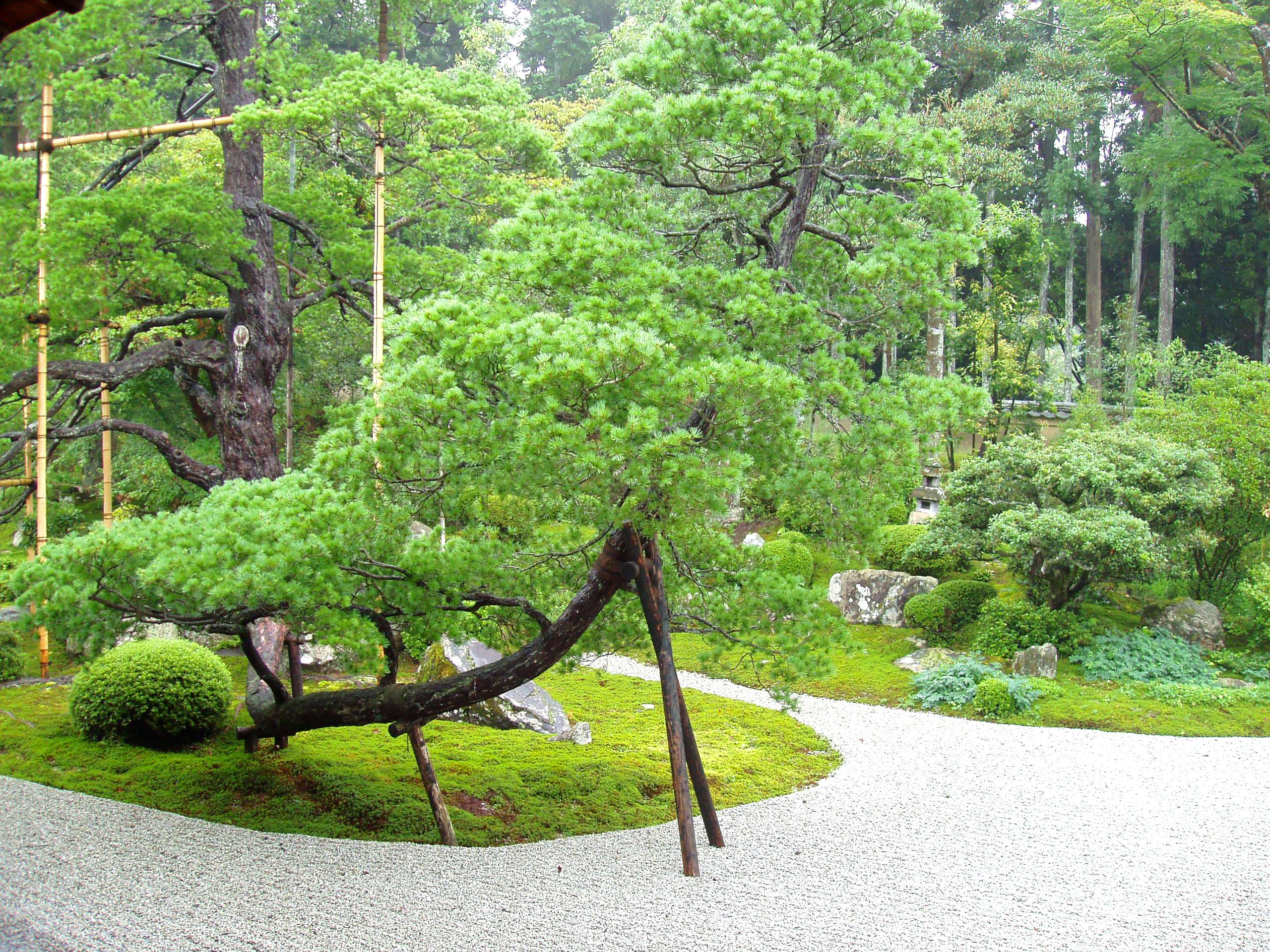 Manshuin Temple, Kyoto, Japan - garden with 400 year old Pinus pentaphylla tree, set within an island on an "ocean" of white gravel.